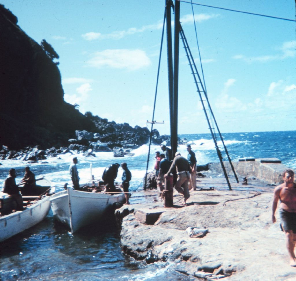 Landing on Pitcairn Island